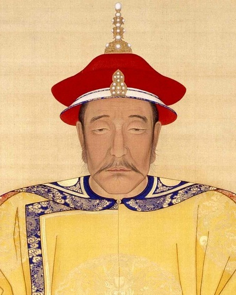 a screenshot version of File:清 佚名 《清太祖天命皇帝朝服像》.jpg